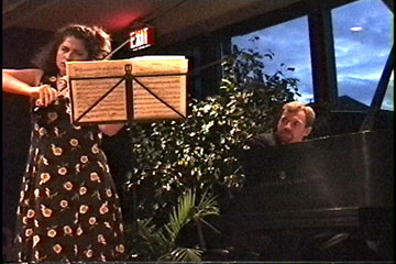 Ida Levin, violin, and Anton Nel, piano, Performing Elgar Sonata at Bargemusic, Brooklyn, summer, 1999